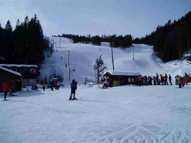 Kjerringåsen skiing center in Sarpsborg, Norway.